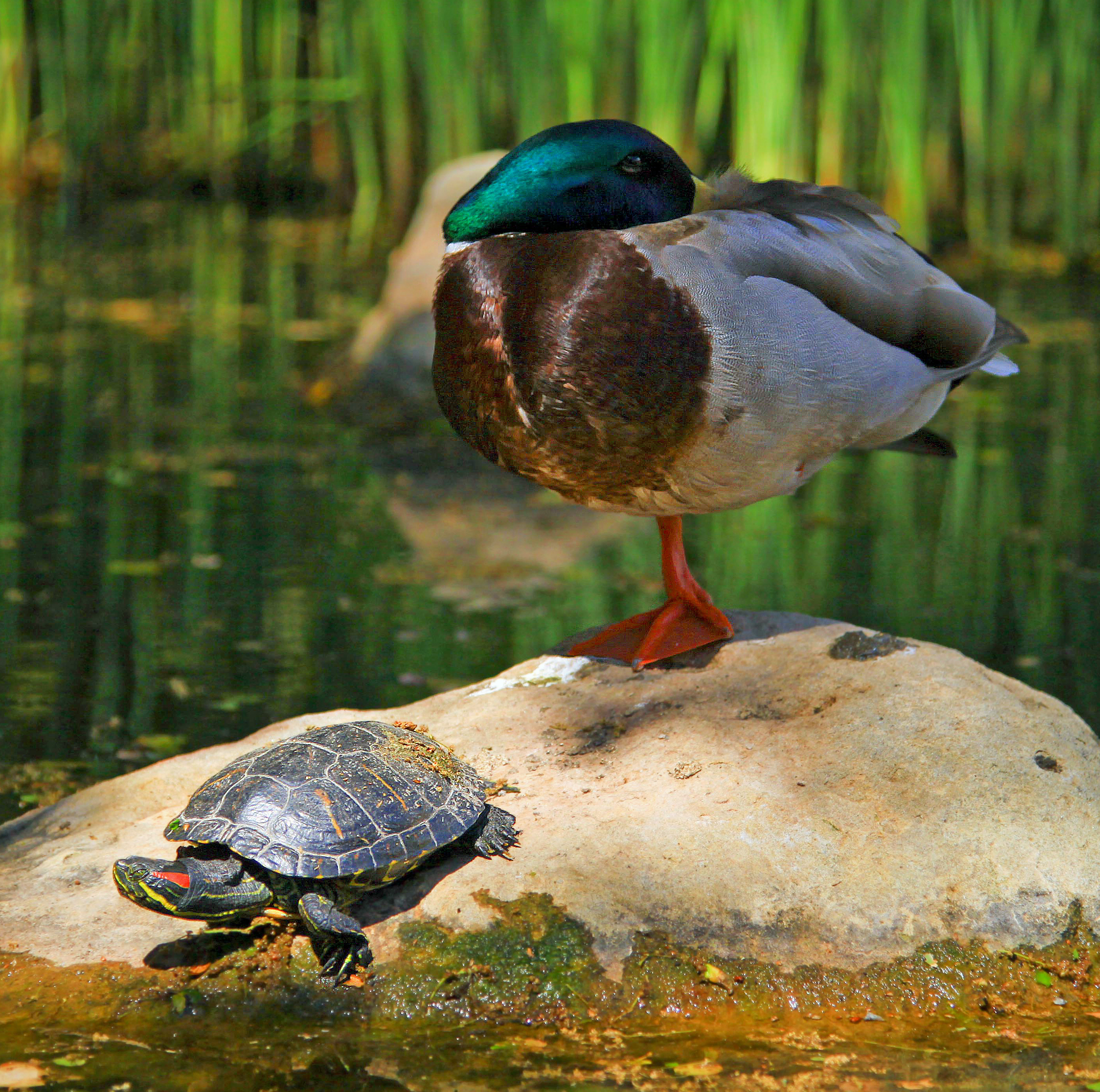 A red-eared slider turtle and a duck.